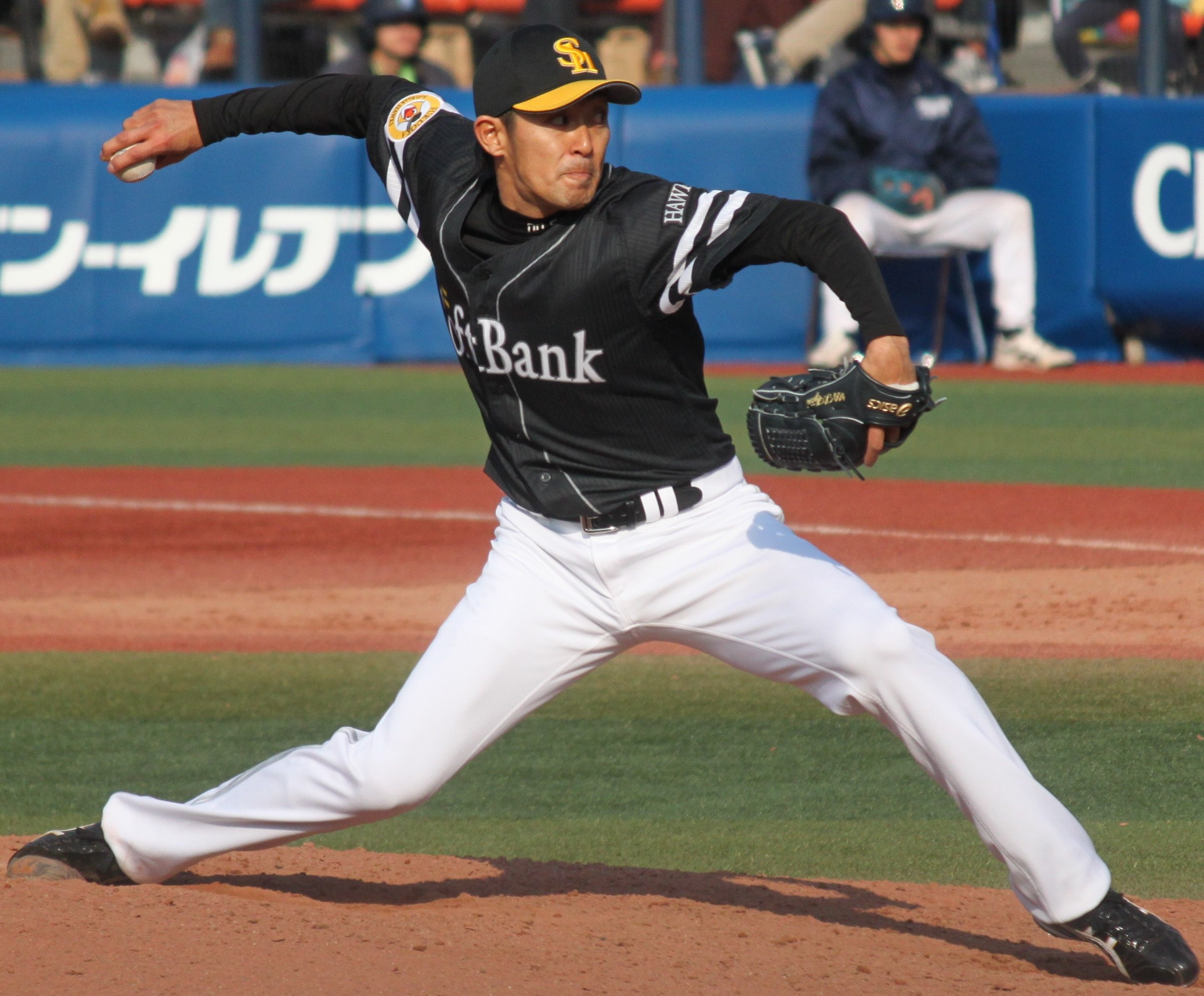 Shintaro Ejiri, pitcher of the Fukuoka SoftBank Hawks, at Yokohama Stadium.